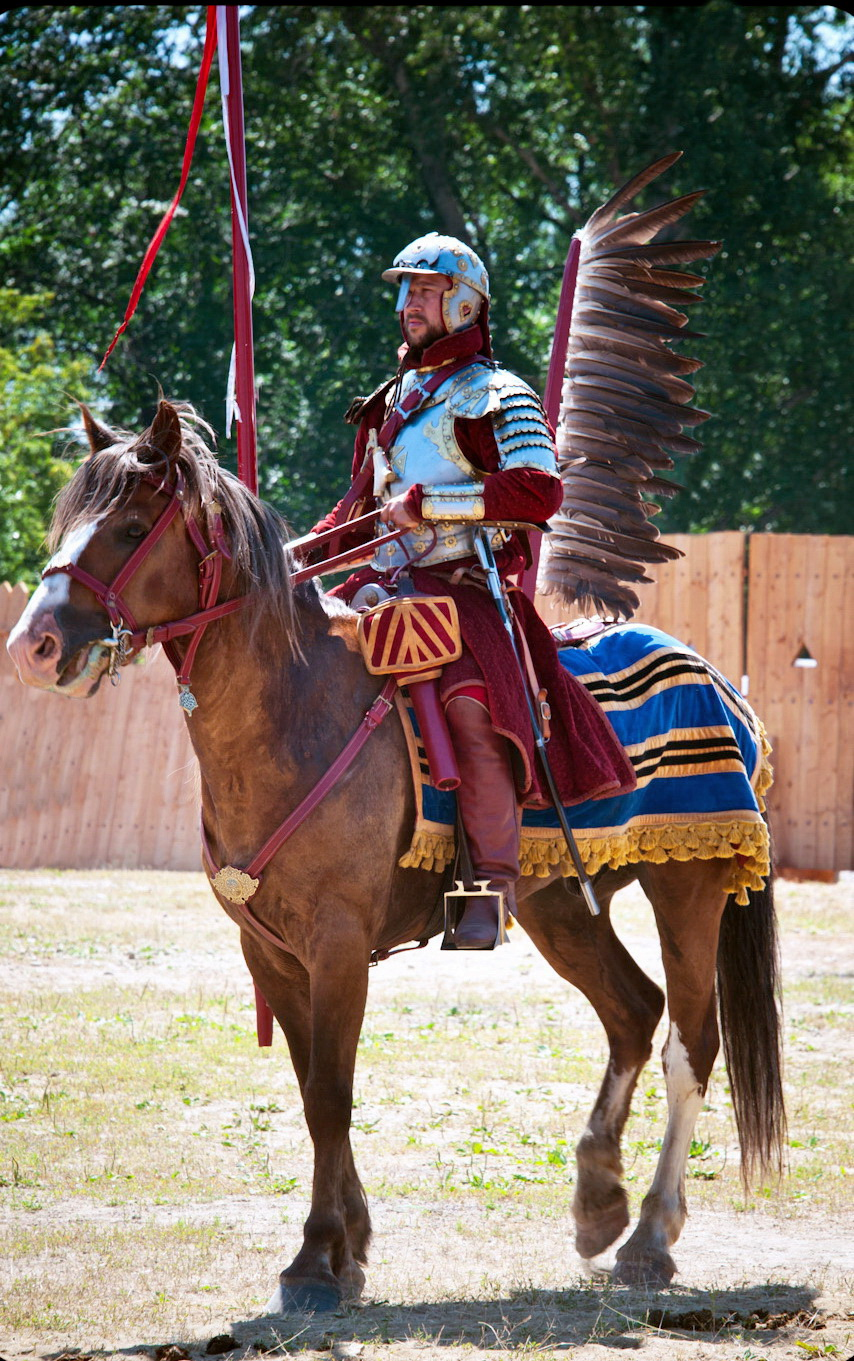 Winged hussar, historical reconstructionБеларуская (тарашкевіца): Крылаты гусар, гістарычная рэканструкцыя